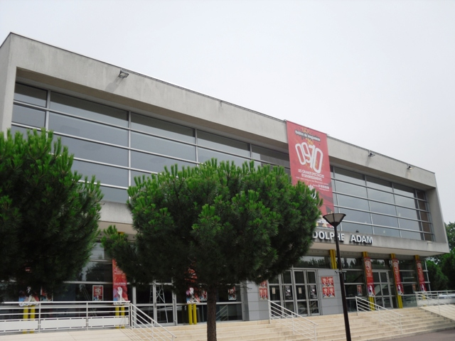 The Theater of Adolphe Adam in Longjumeau, Essonne, France